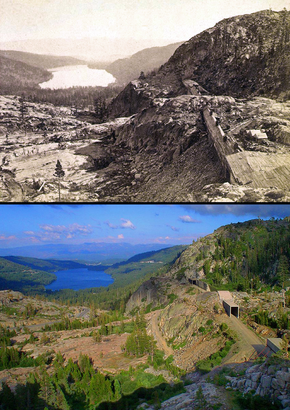 Composite image of Donner Summit and Donner Lake with the CPRR grade visible on the right exiting the Summit Tunnel (Tunnel #6) passing through Tunnel #7 and entering Tunnel #8. The upper image, which was taken c1869 by A.J. Russell, shows the grade covered by wooden snow sheds. The lower image was taken by the uploader (Centpacrr) in August, 2003, which shows where the rails of Track #1 had been in plance and in daily use from 1868 until the 6.7 mile section of Track #1 between Shed 26 (MP 192.1) and Shed #47 (MP 198.8) about a mile east of the Eder flyover was removed by the UPRR (which now owns the grade) in 1996. All traffic over the summit moved since then over Track #2 about one mile south of Donner Pass and crosses the summit through the 10,322-foot long Tunnel #41 (built in 1925) running under Mt. Judah between Soda Springs and Eder. (The west portal of the Summit Tunnel appears in the lower right corner of each image.) 1869 "Russell" Image 2003 "Centpacrr" Image